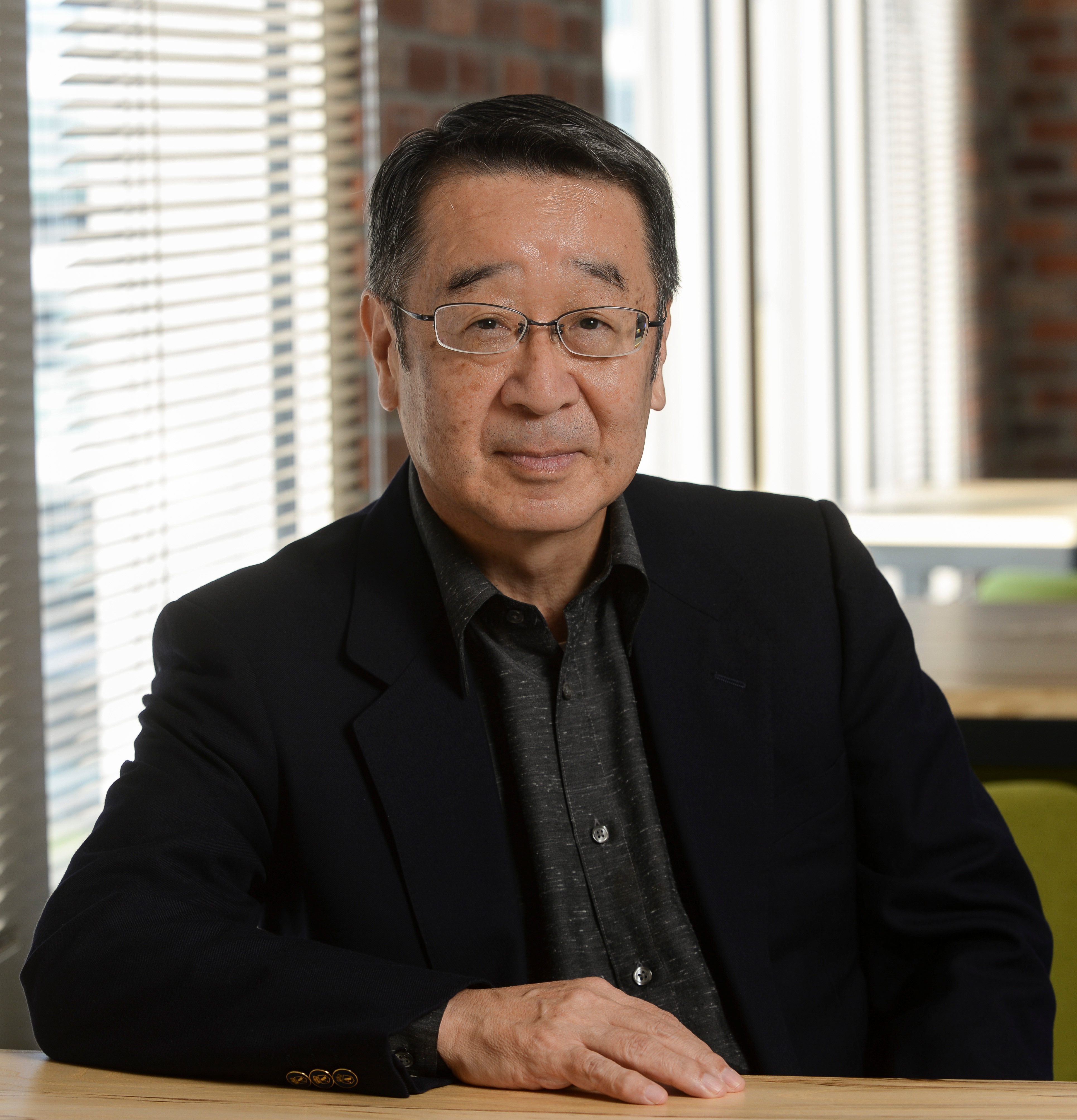 Photo of Yoshihisa Yamamoto